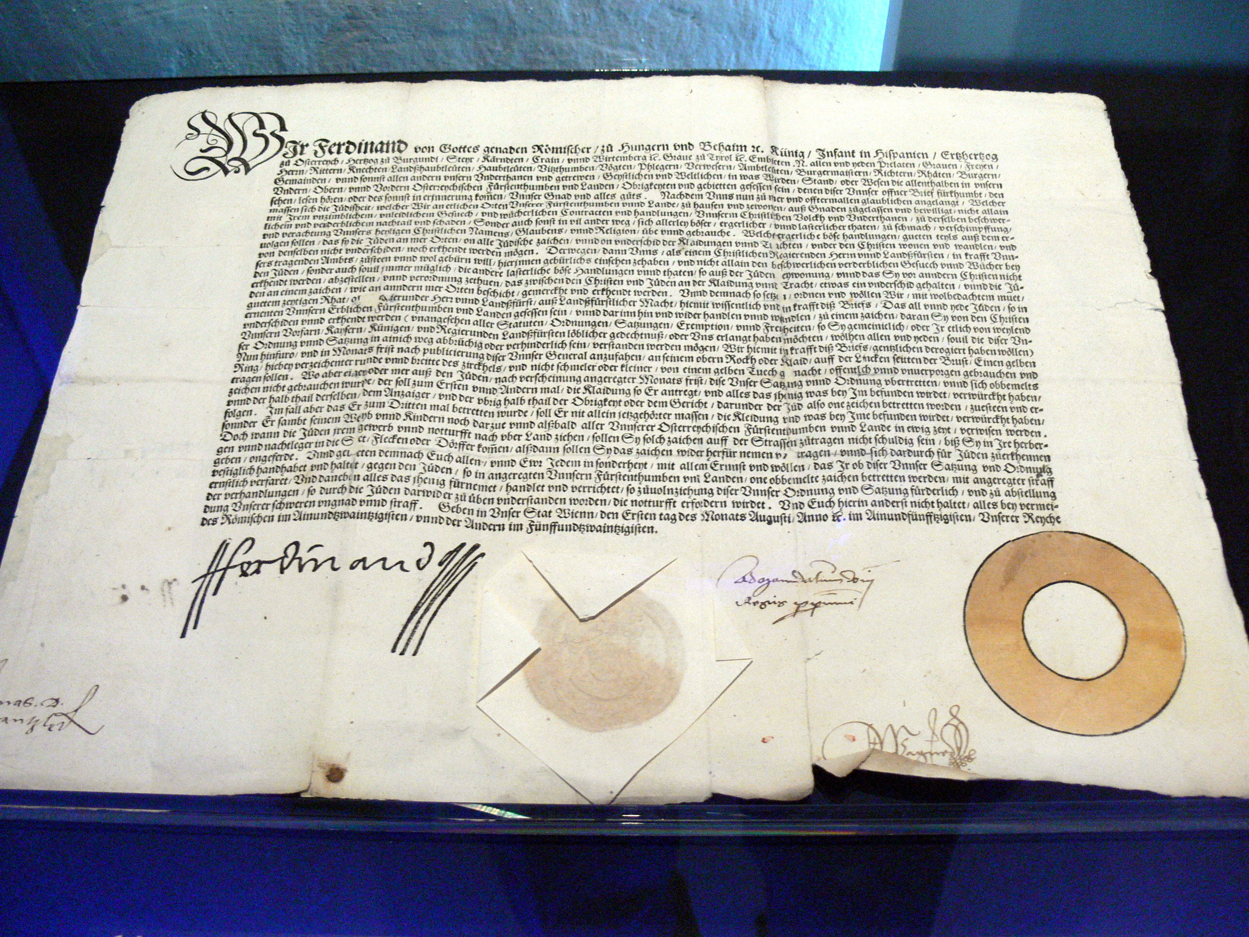 Document ( August 1st 1551 ) of emperor Ferdinand I ordering Jews to wear yellow circles on their cloth.( Upper Austrian county archives ).